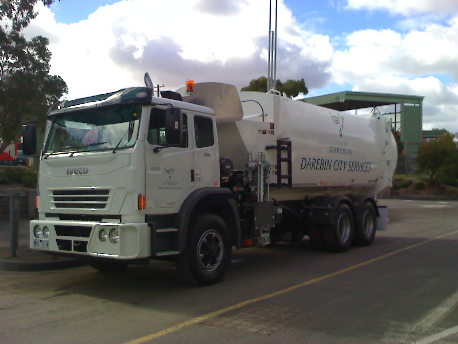 2008 Iveco Acco 2350G Fitted with a MacdonaldJohnston GenV Automated Waste Collection Truck.